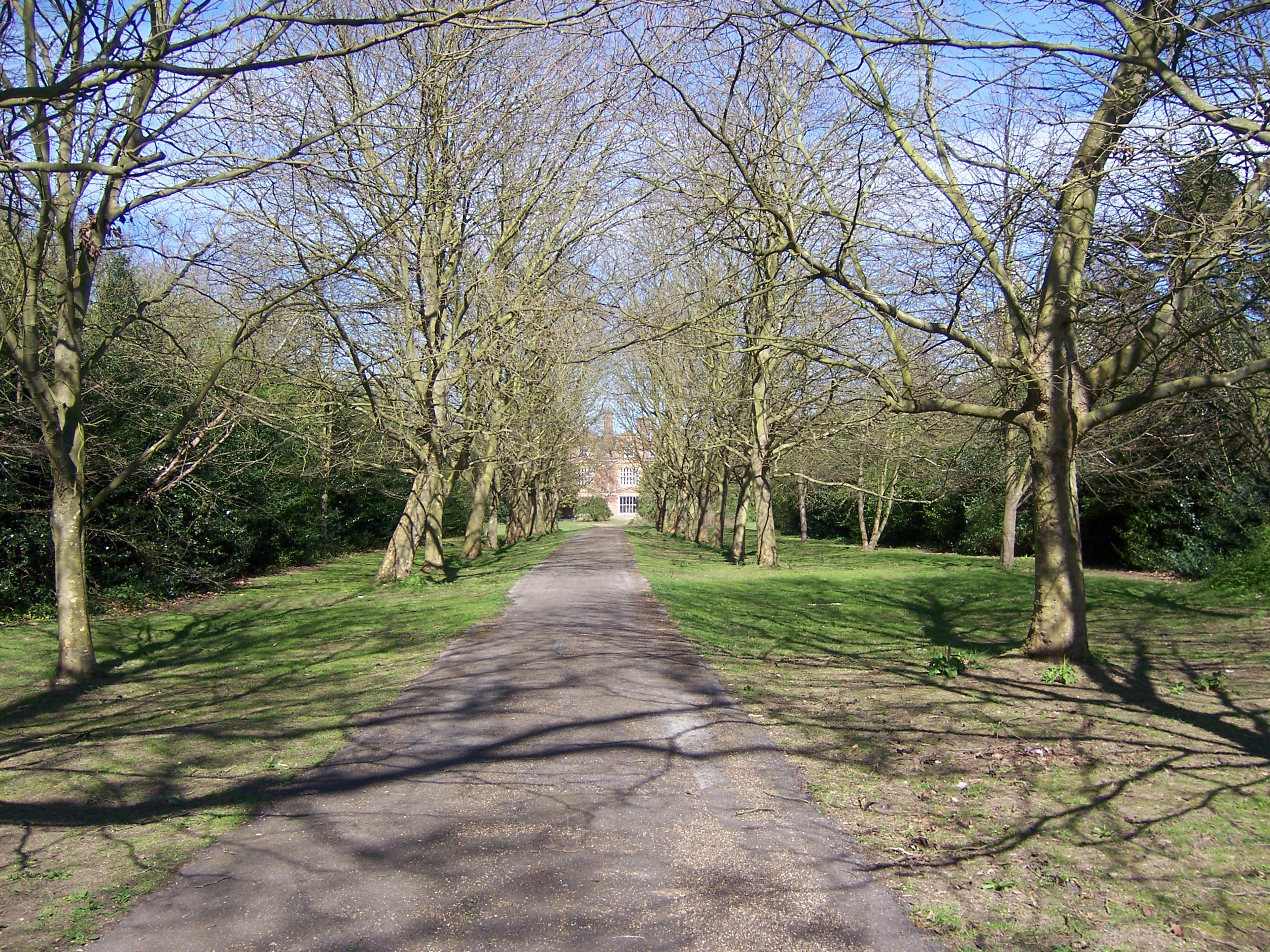 Drive leading to Swakeleys House.